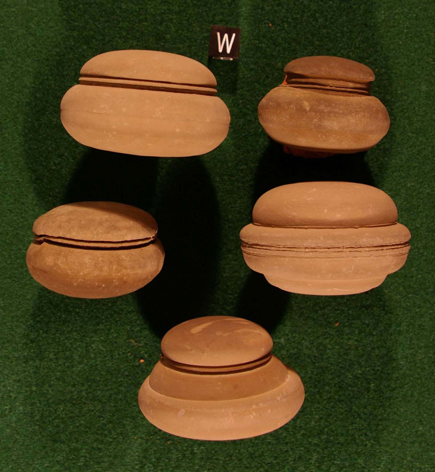 Side view of typical “Button Rock” concretions found within Schoharie County, New York. Scale cube at top center of image is 1 cm on each edge (marked with white "W").